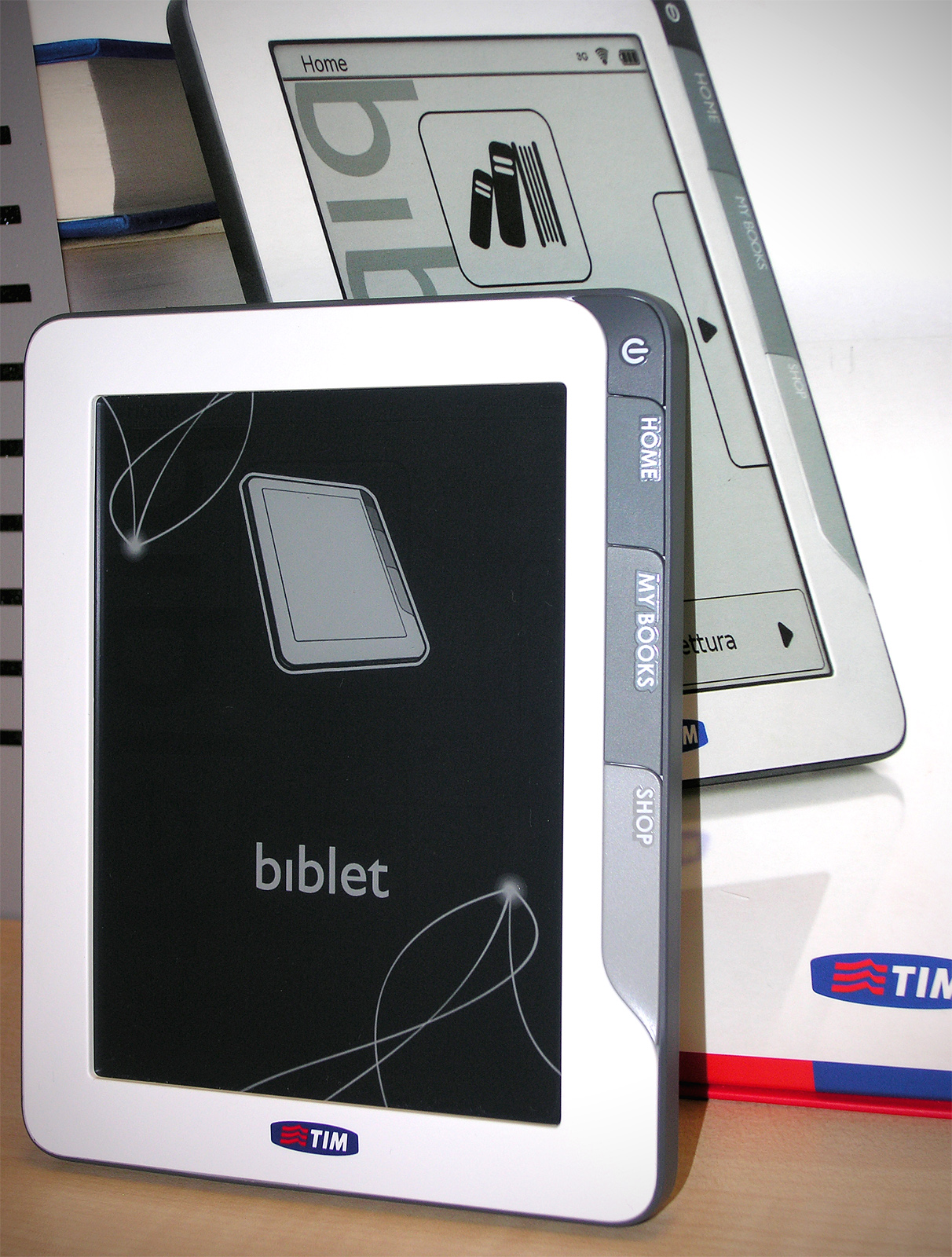 Biblet Ebook Reader (Sagem Wireless)